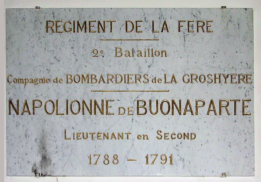 Napoléon Bonaparte au régiment de La Fère, Auxonne, Burgundy, FRANCE